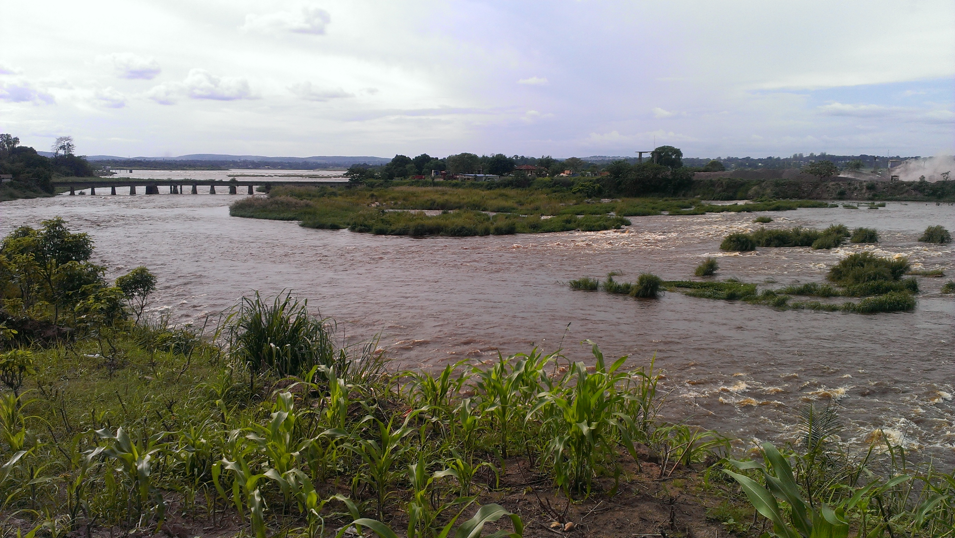 Congo river viewed from Kintambo